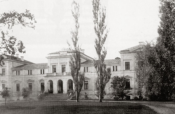 Līksna manor house